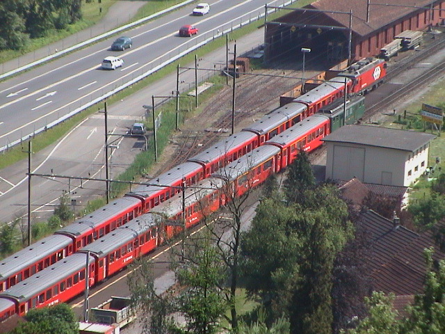 Brünigbahn in Alpnachstadt, Switzerland